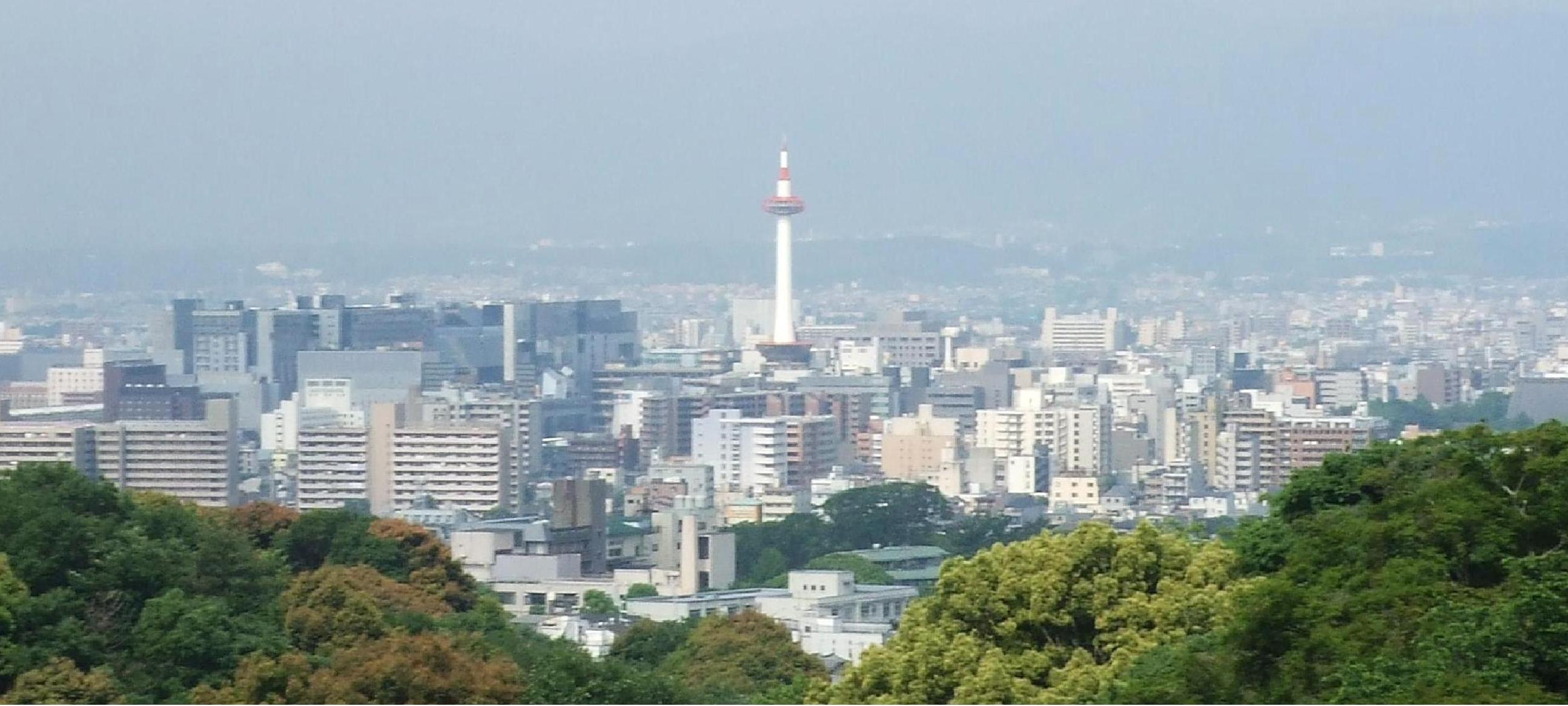 Kyoto tower and Kyoto city